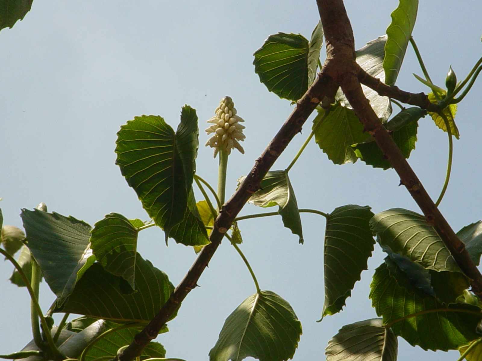 Flor Macho de Hura plolyandra, árbol localizado en la Unidad Academica de Agricultura , Universidad Autonoma de Nayarit